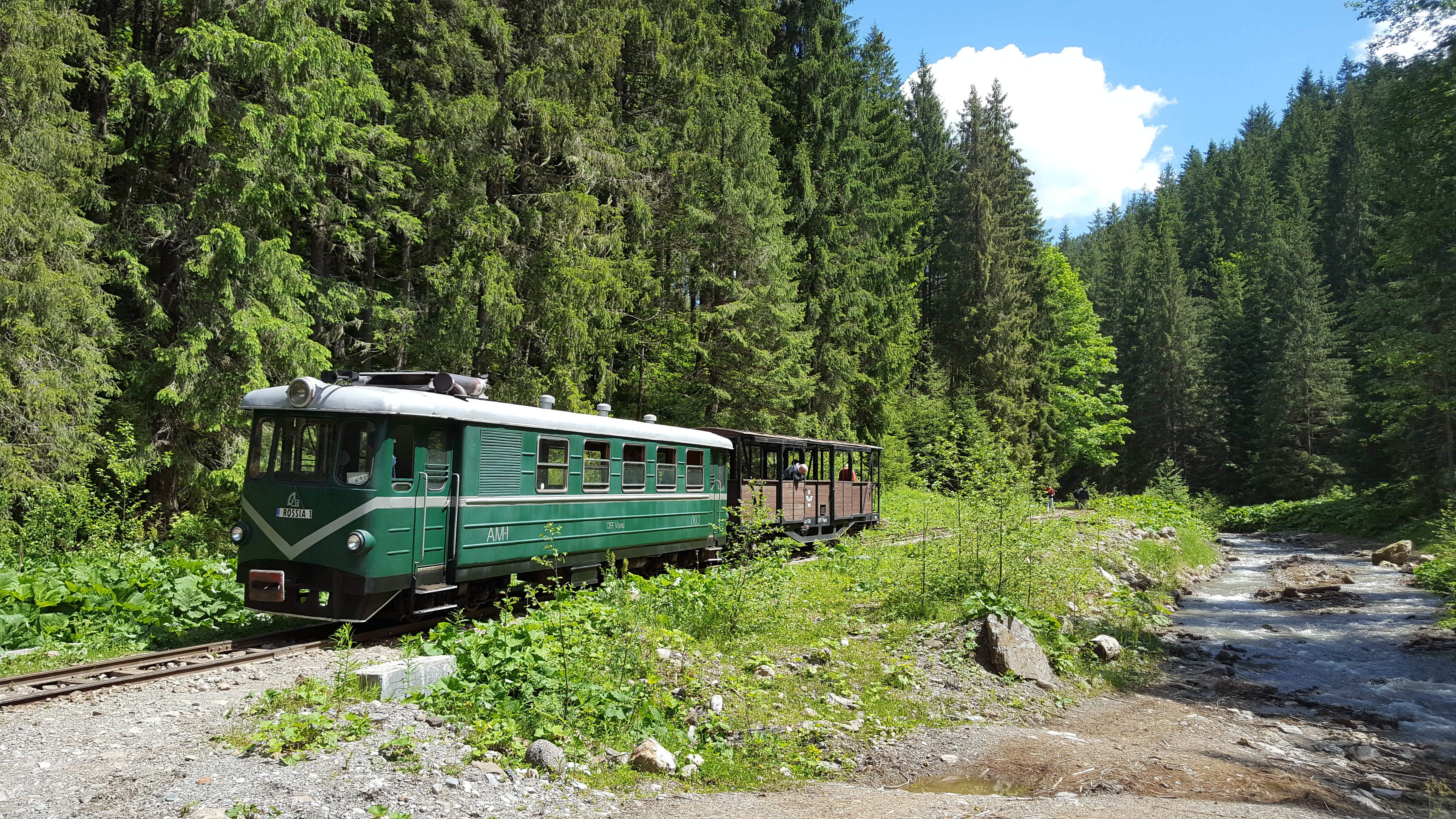 Tourist train (diesel railcar Rossia 1) on the CFF Vișeu (Vasser Valley narrow-gauge railway) in Romania